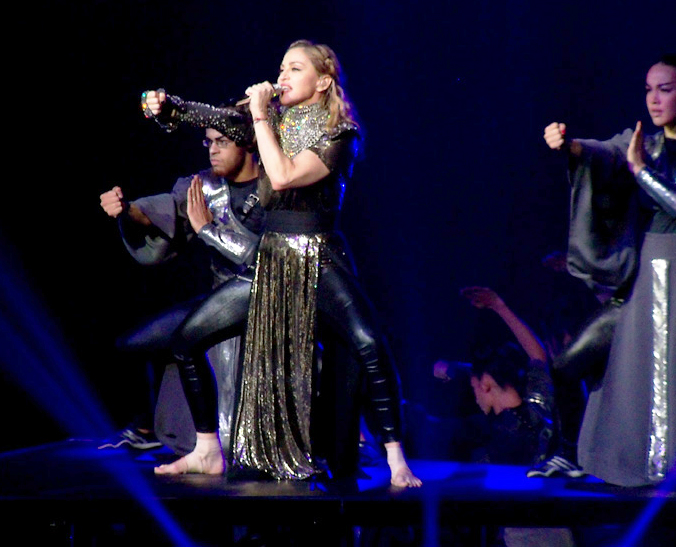 Madonna's MDNA Tour at Staples Center